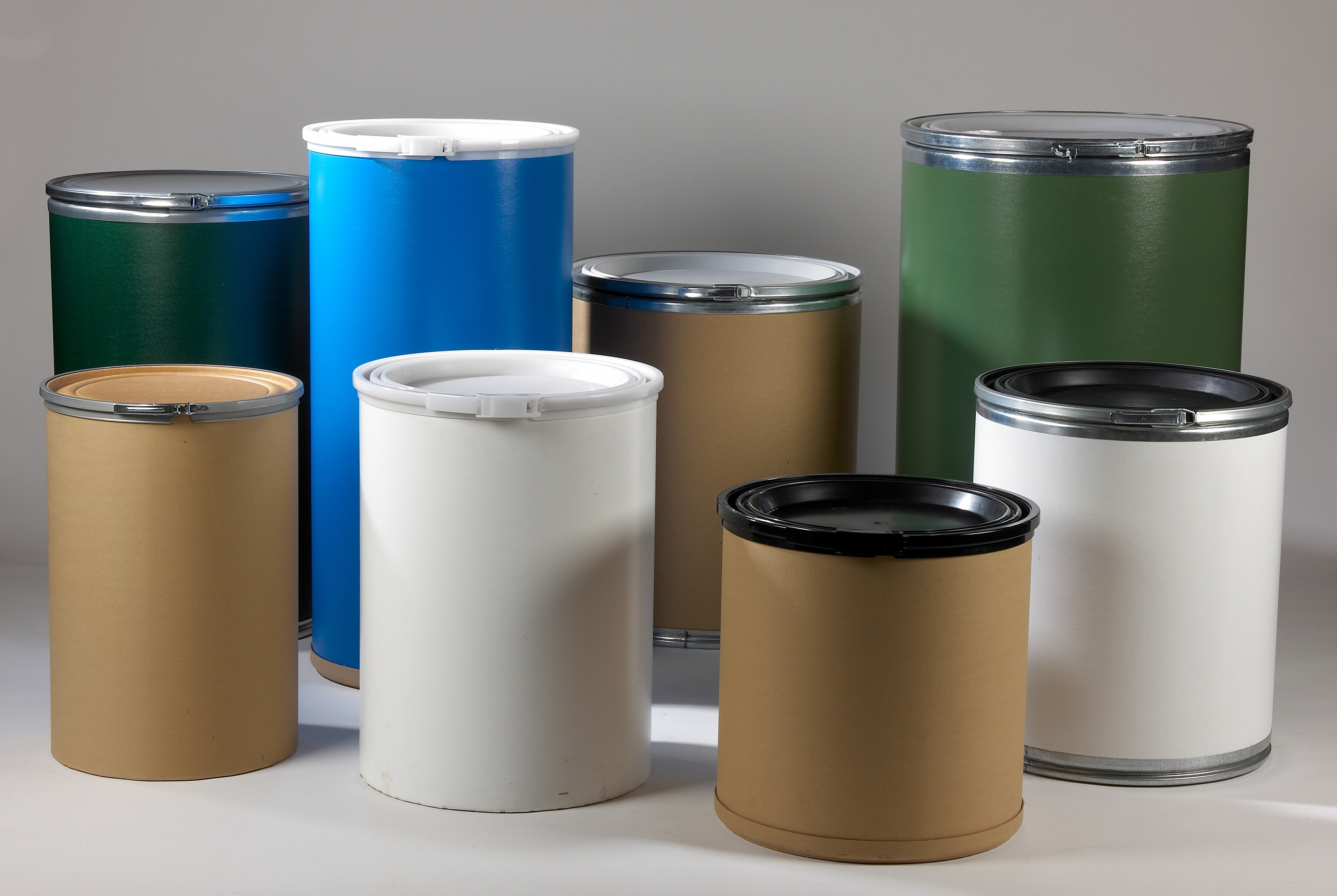 Fibre drums (Kraft drums) in various sizes, finishes and lid locking systems.